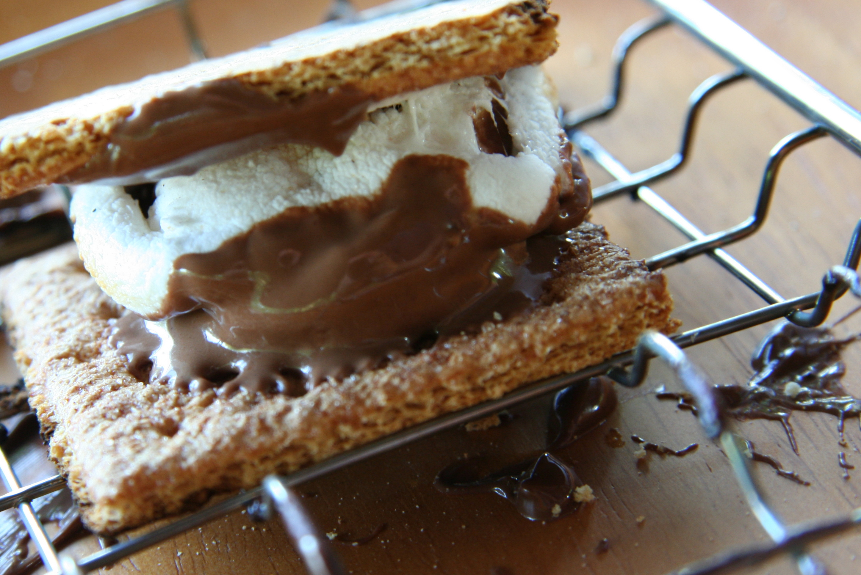 S'more made with a Reese's Peanut Butter Cup and marshmallow between two graham crackers roasted over a campfire in a wire basket